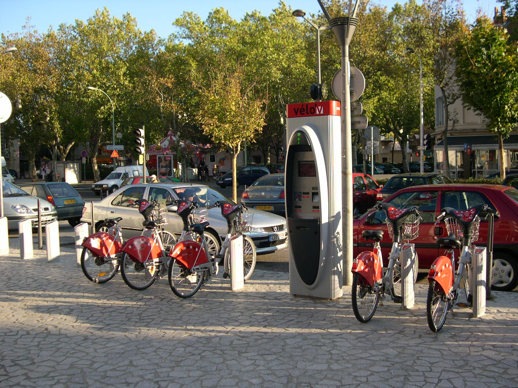 A Velo'V station, in Lyon (France)